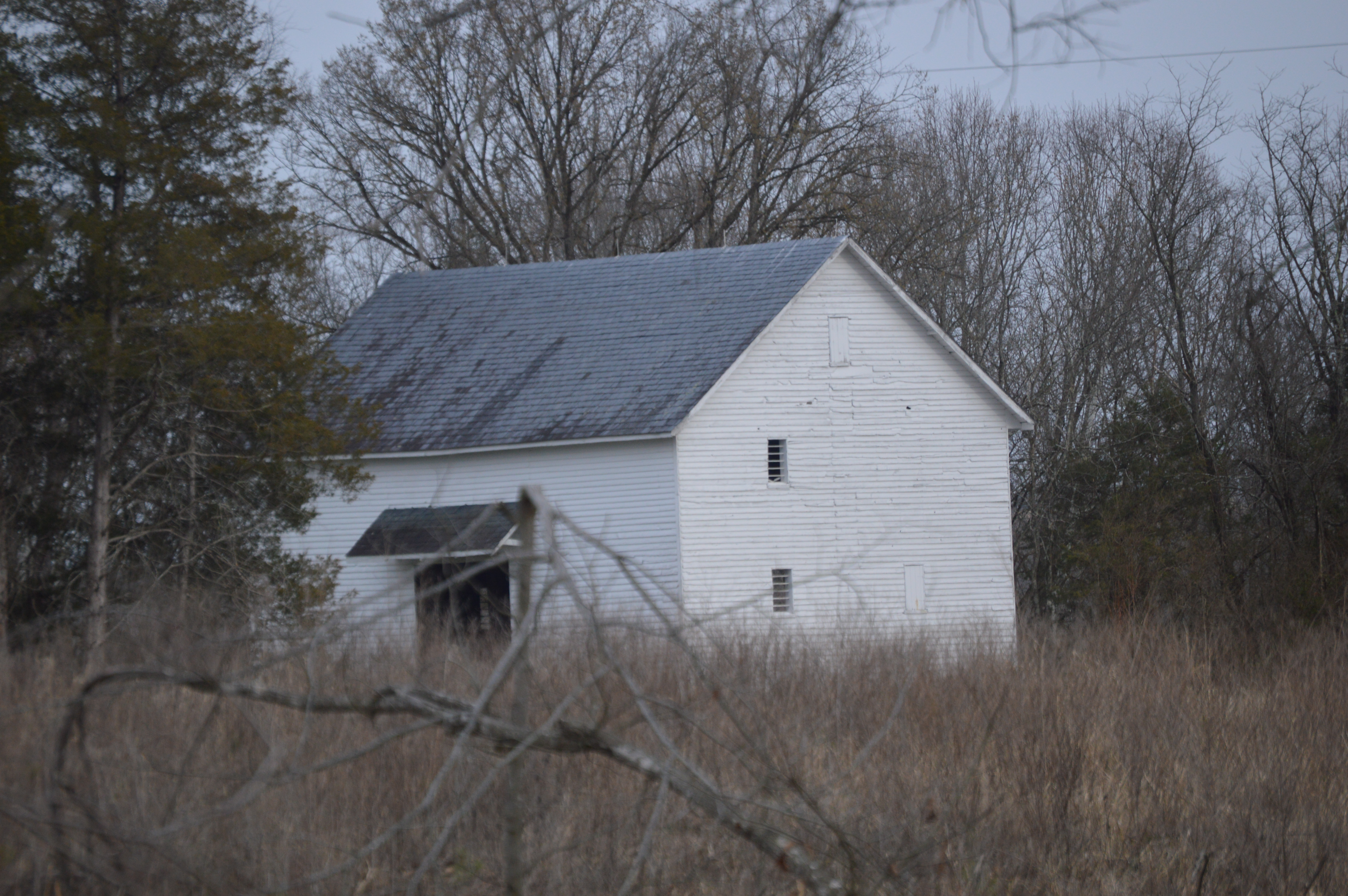 One of the outbuildings at the Rivanna Farm, located on Bremo Farms Lane southwest of Columbia in Fluvanna County, Virginia, United States. The farmstead is listed on the National Register of Historic Places.